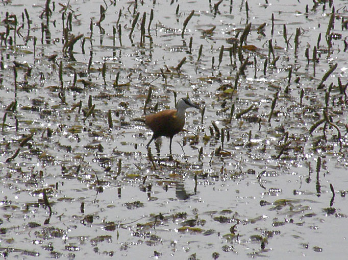 African jacana (Actophilornis africana) photographed on Lac de Guiers near Keur Momar Sar, Senegal